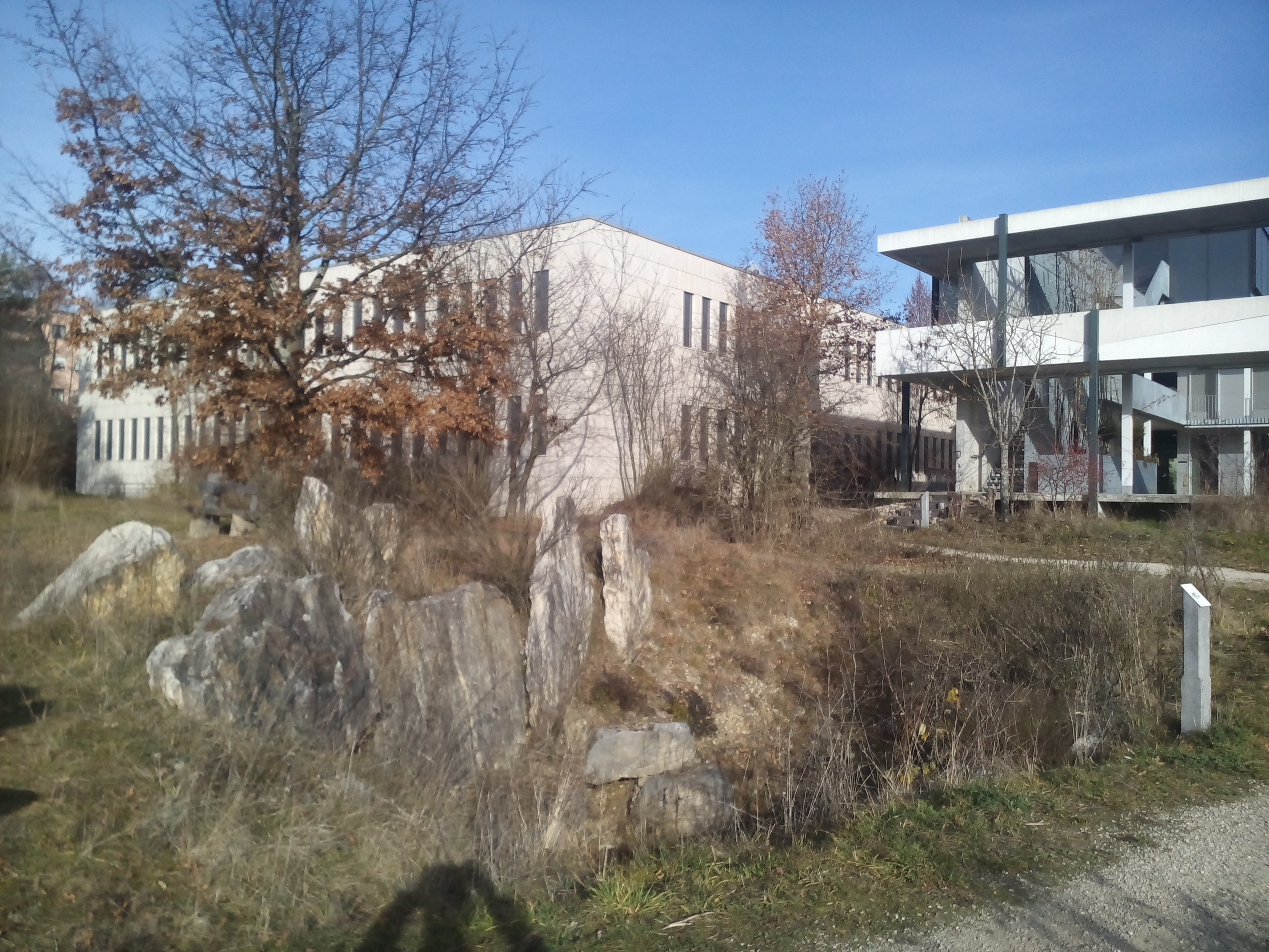 IUCN Headquarters (old and new building) with the natural garden in Gland, Switzerland